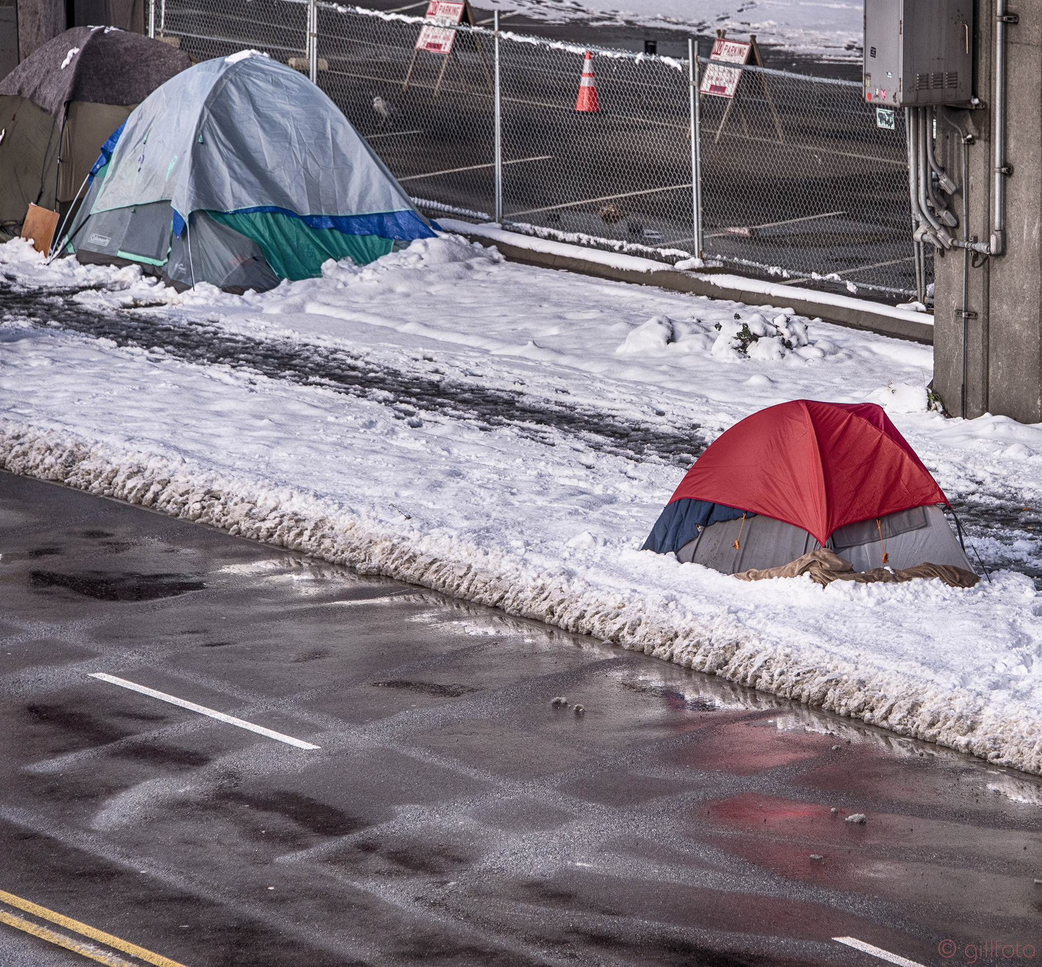 Winter Homeless Seattle, under the Alaskan Viaduct, Seattle WA.